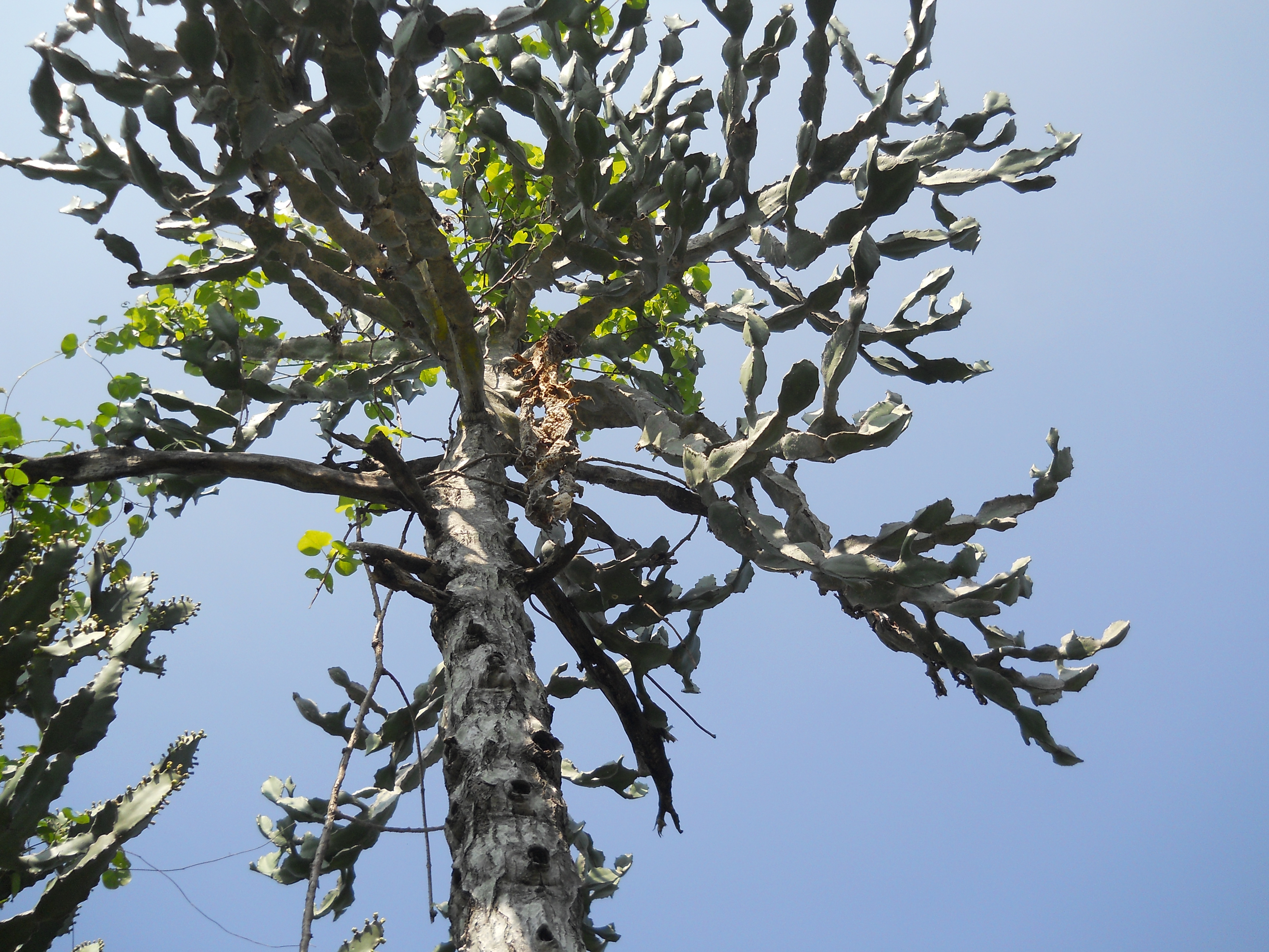 Euphorbia antiquorum at Nellore district, A.P. India.